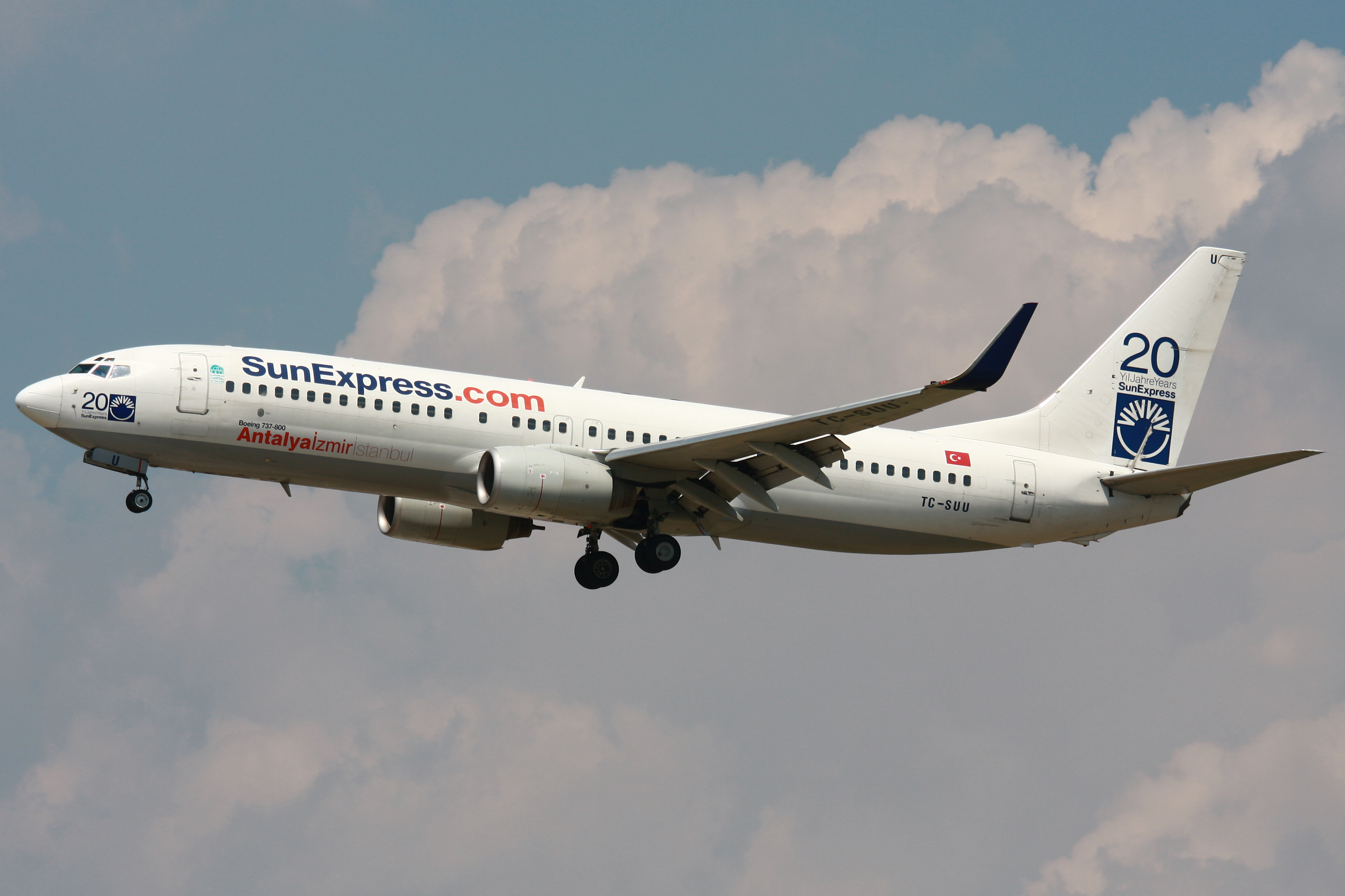 A Boeing 737-800 of SunExpress landing at Frankfurt Airport